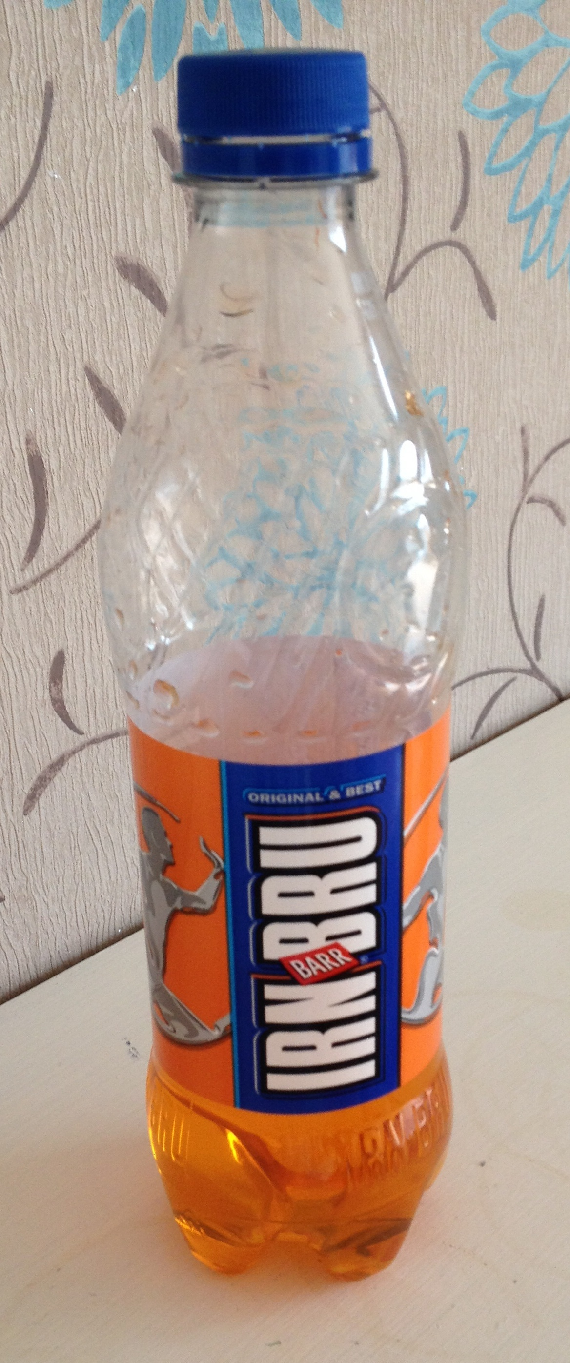 500ml bottle of Irn Bru